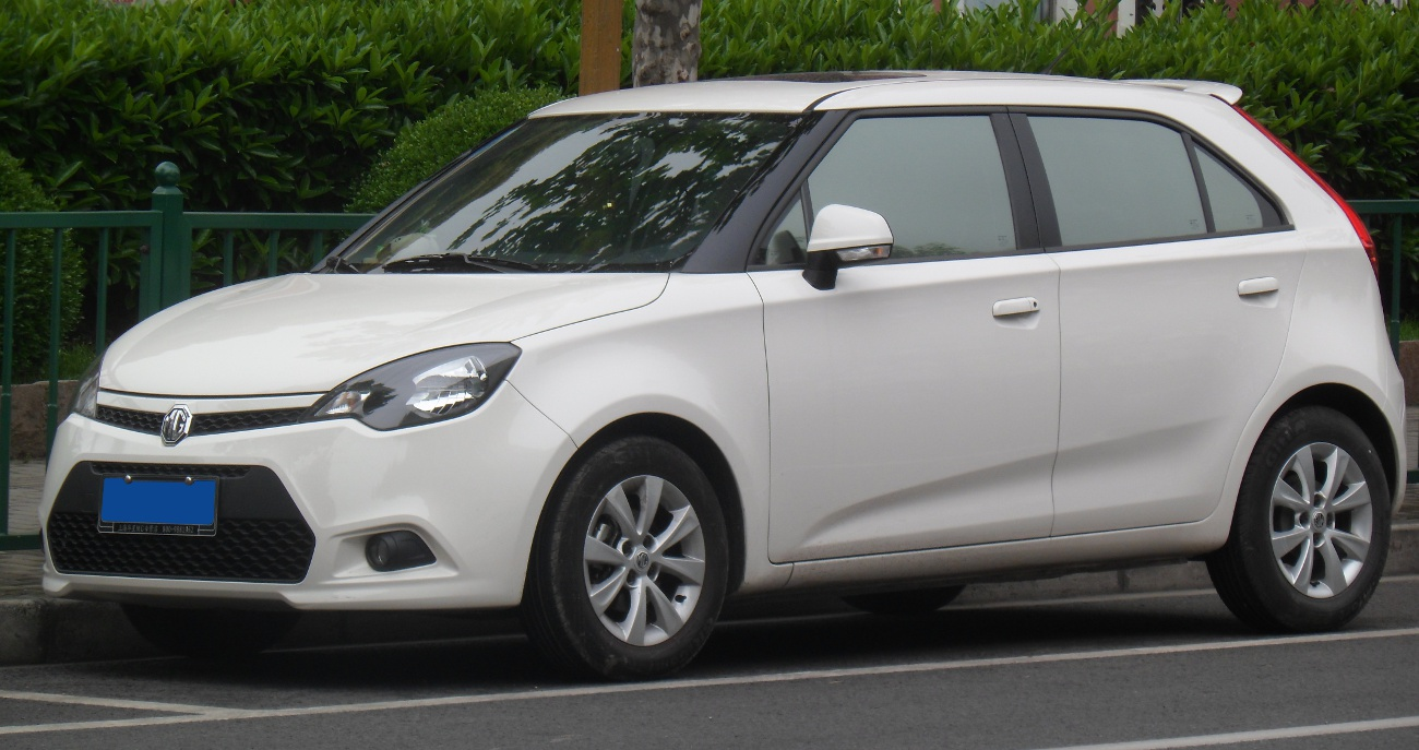 MG 3 II photographed in Shanghai, China.